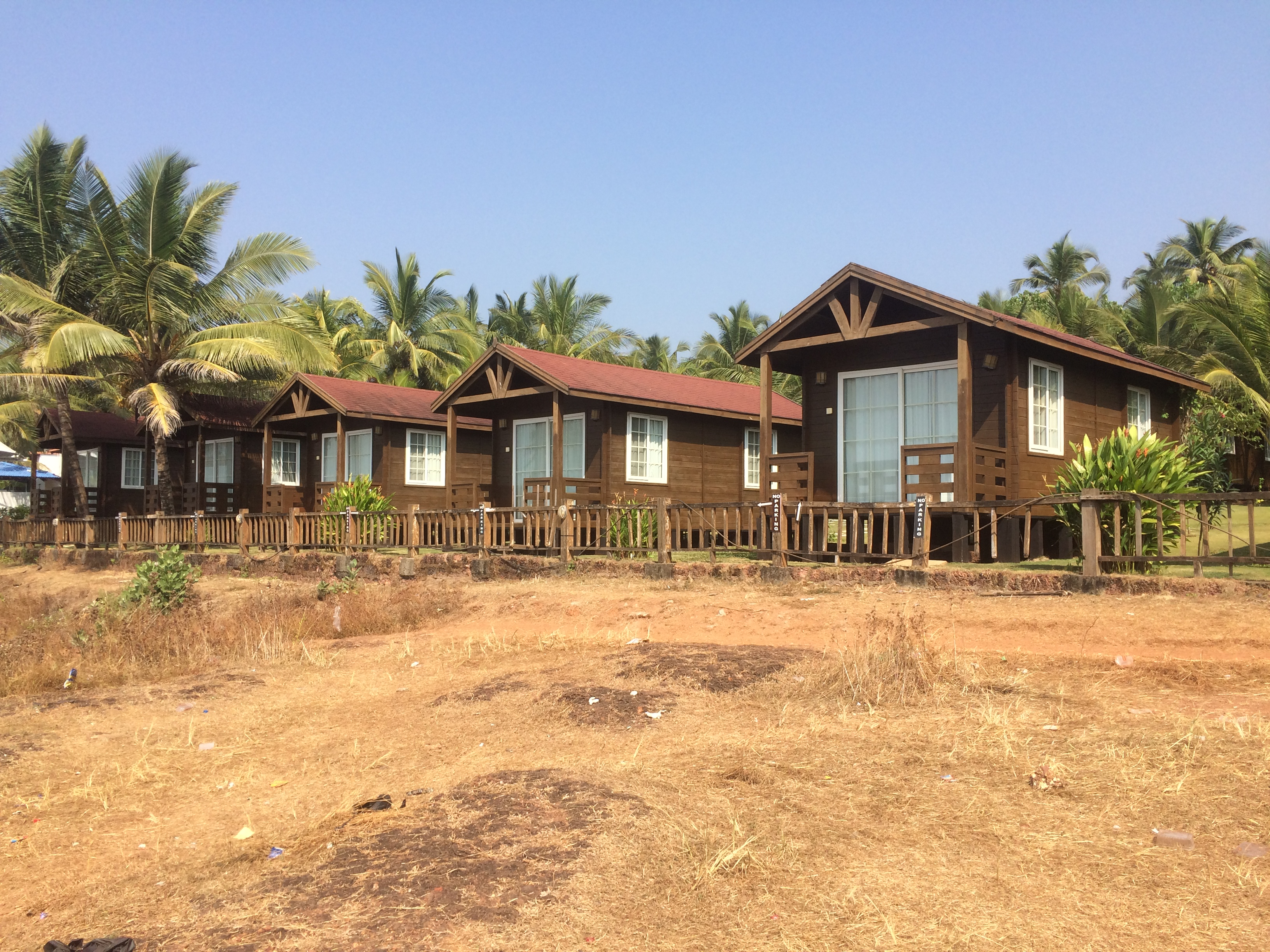 nice place to visit in goa